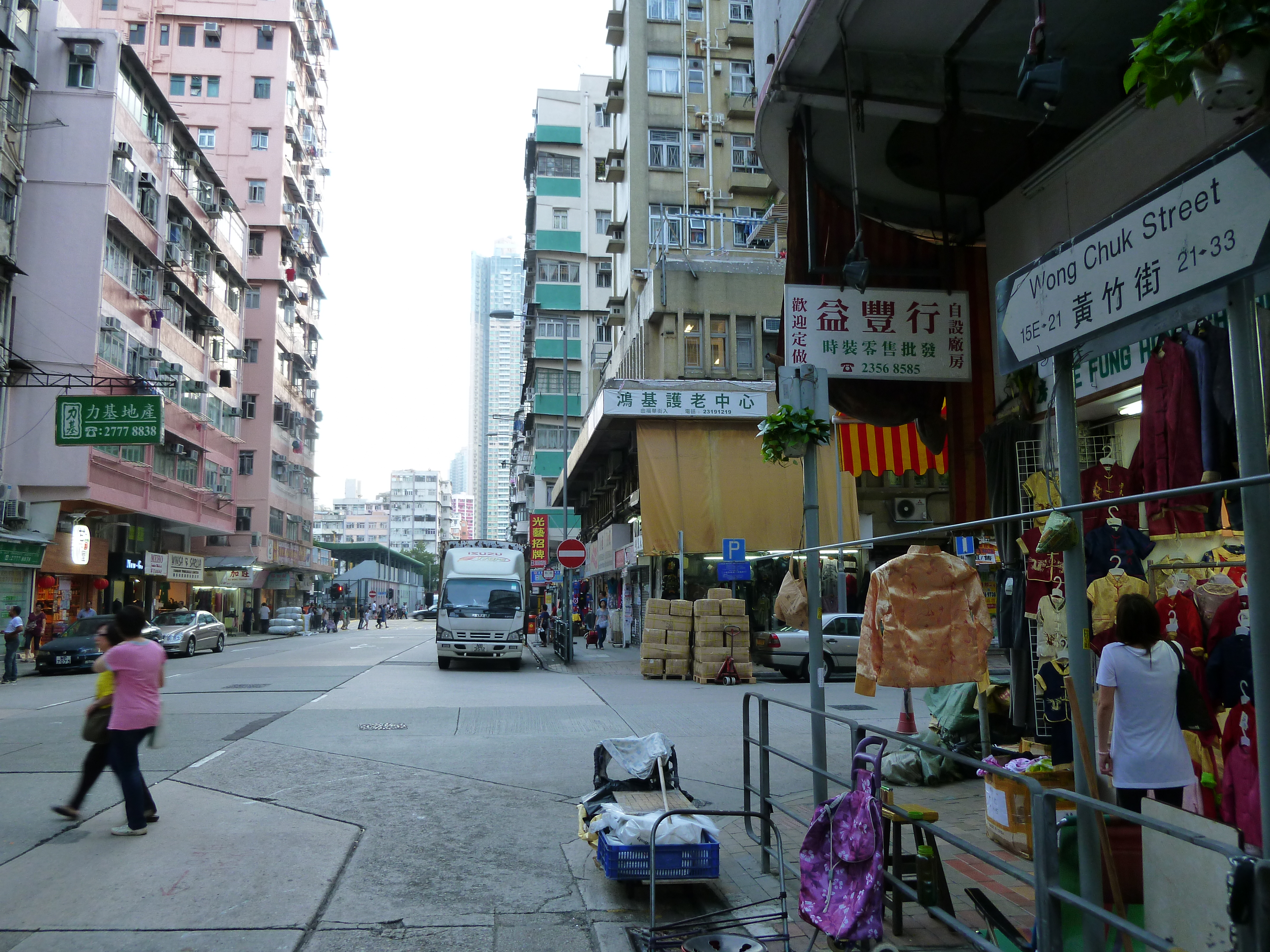 Wong Chuk Street (Sham Shui Po, Kowloon, Hong Kong) 中文（香港）: 黃竹街 (香港九龍深水埗區)